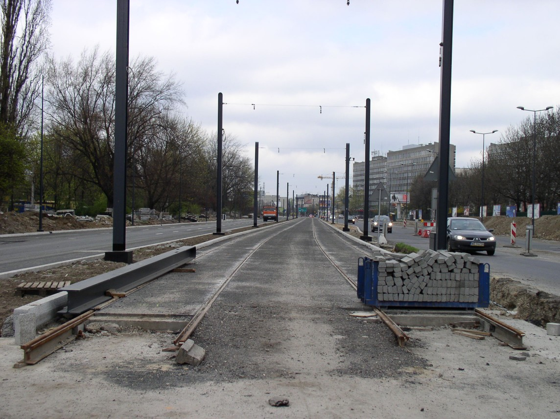 A tram line under construction in Cracow, Al. Powstania Warszawskiego.